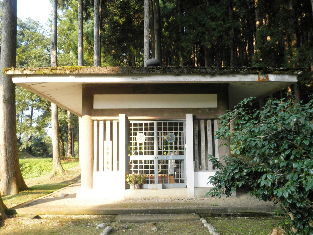 Eirinzuka, the grave of Asakura 'Eirin' Takakage in Ichijōdani Asakura Family Historic Ruins.